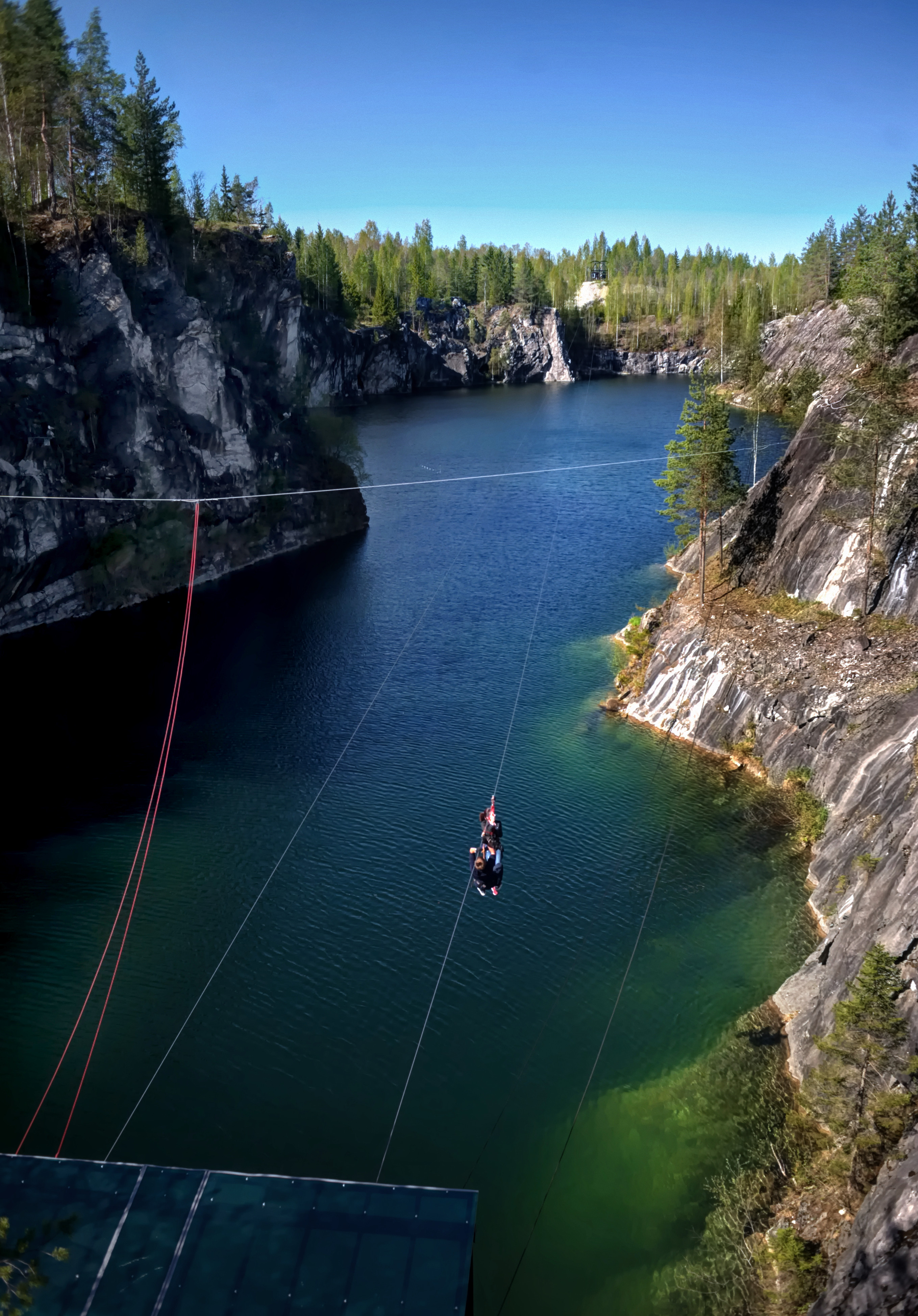 Ruskeala Marble Quarry May 13th 2016